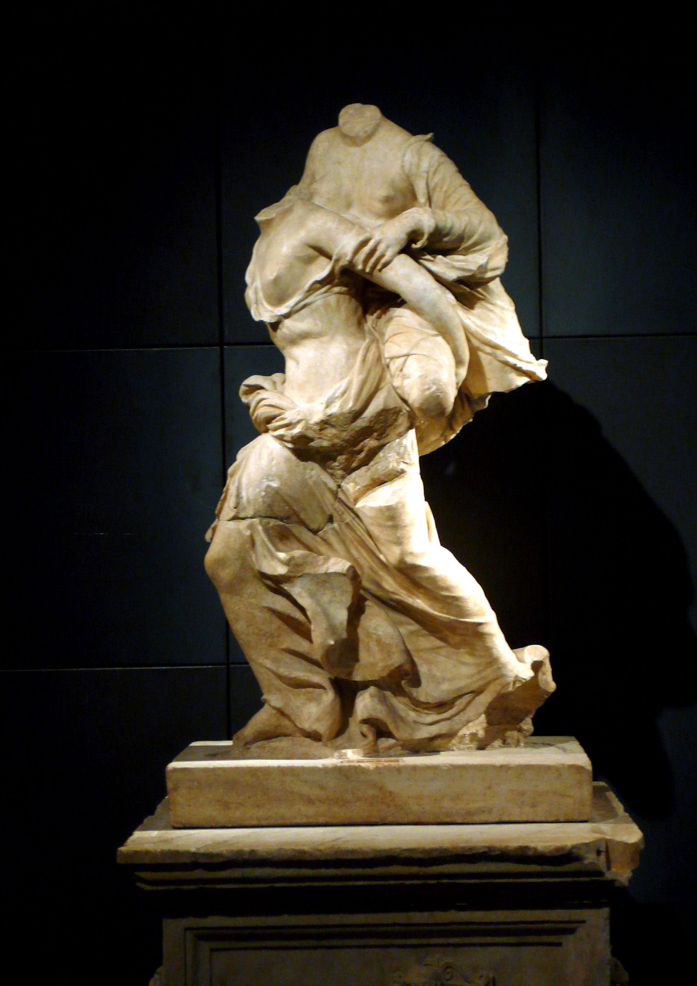 Situated in the upper part of the Esquilino, in the area around what is today Piazza Vittorio Emanuele, the Horti Lamiani (Lamiani Garden) were founded by the consul Aelius Lamia, a friend of Tiberius, and very soon (already with Caligula) became part of Imperial property. Of the luxurious decorations of this vast complex of buildings, excavated in the 19th century and then covered over again, over and above the frescos and architectural elements in coloured marbles, a countless number of foils in gilded bronze with gems set in them, the remains of a sumptuous wall dressing, were found. Capitoline Museum, Rome.